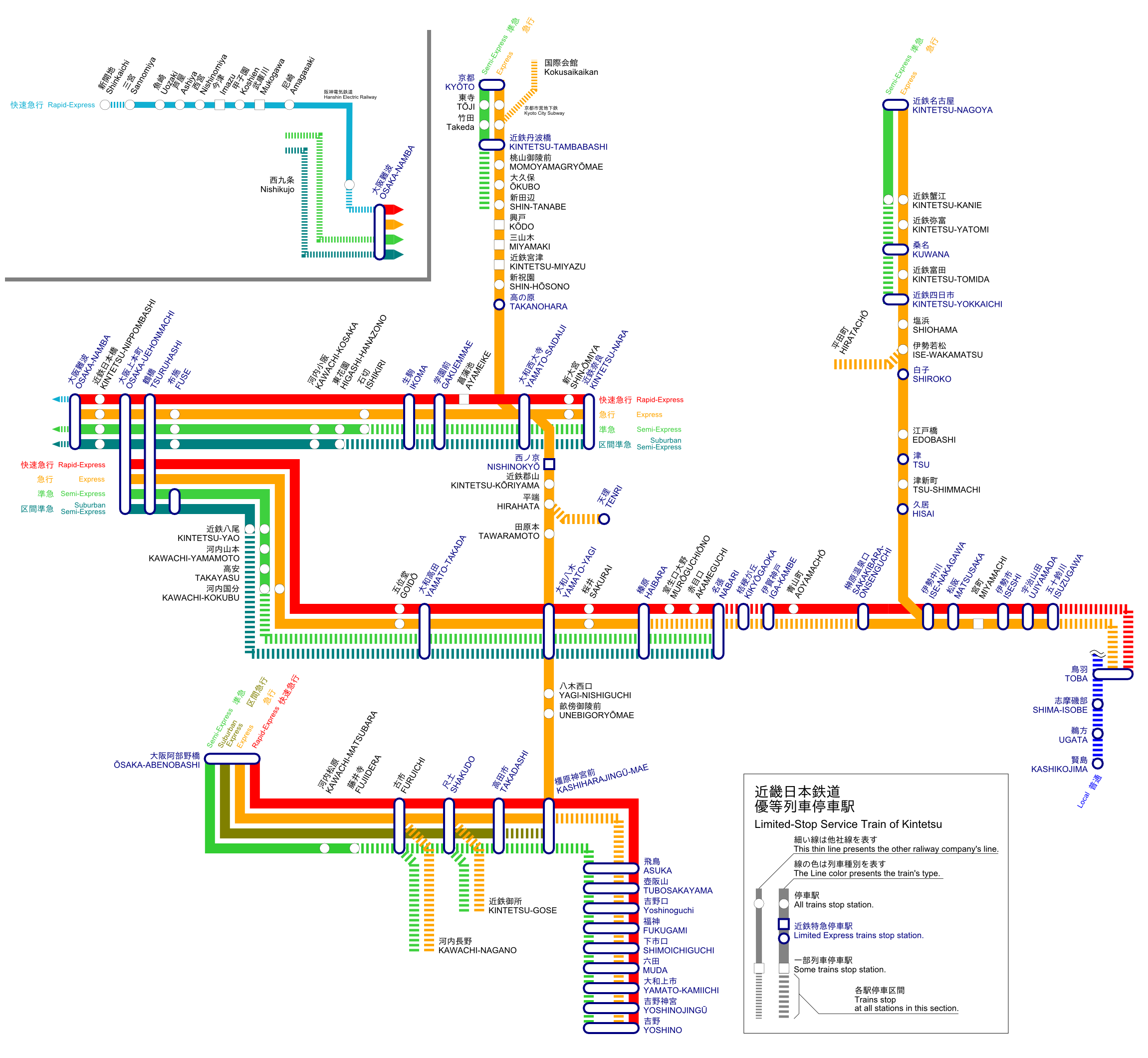 Railway map of Kintetsu Corporation express trains